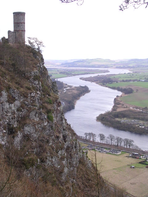 Kinnoull Hill and the River Tay Kinnoull Hill (with its folly) provides an excellent vantage point from which to see the meandering River Tay.